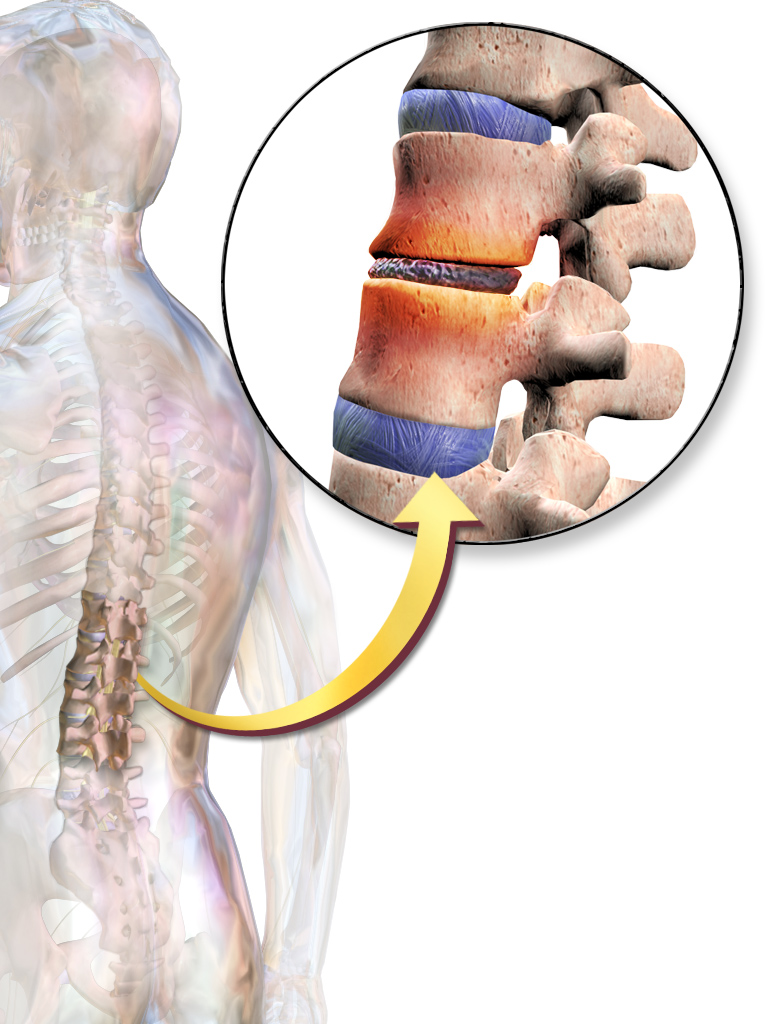 An illustration showing discogenic pain.